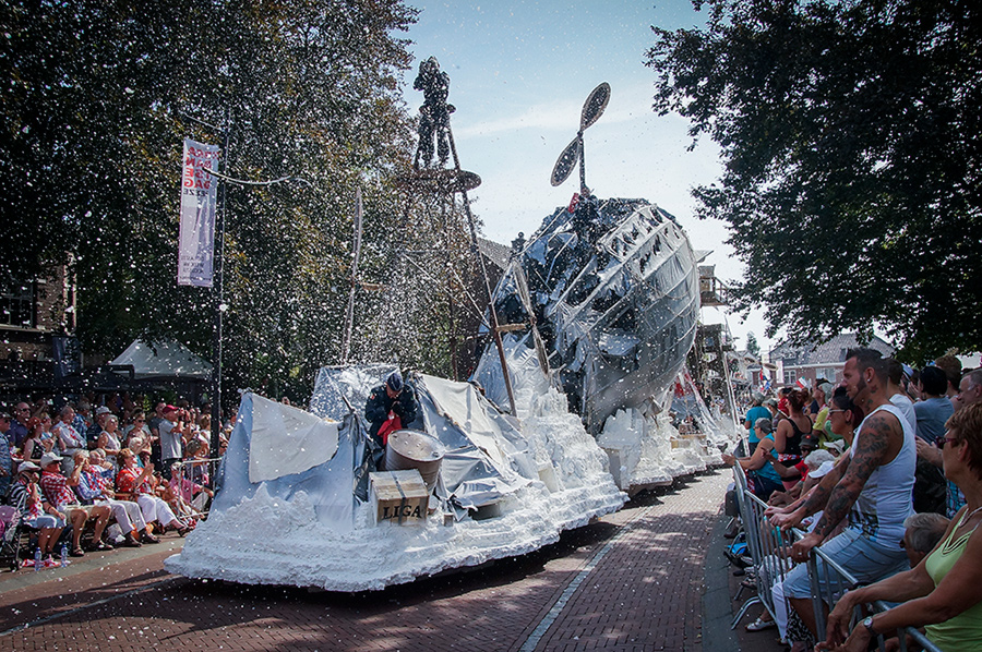 Brabantsedag 2015 - De Lambrekvrienden